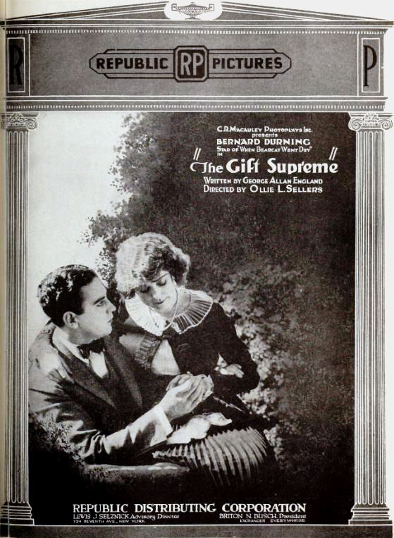 Advertisement for the American drama film The Gift Supreme (1920) with Bernard Durning and Seena Owen, on page 7 of the May 1, 1920 Exhibitors Herald.